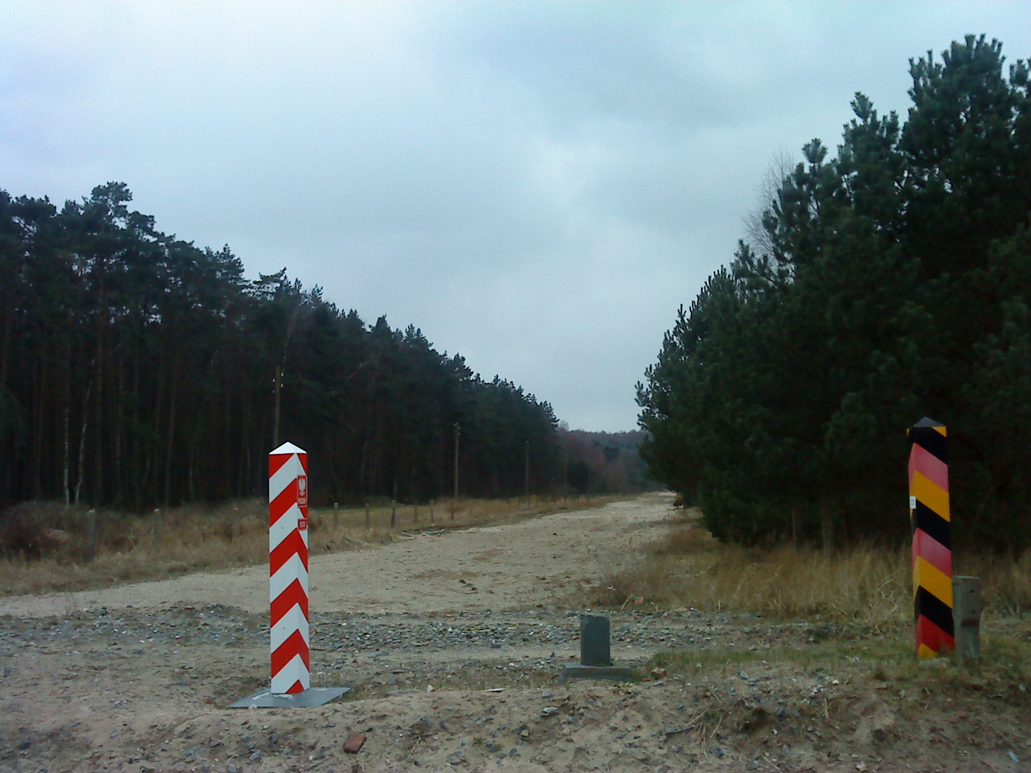 Oder Neisse line at Swinemünde / Ahlbeck, Usedom